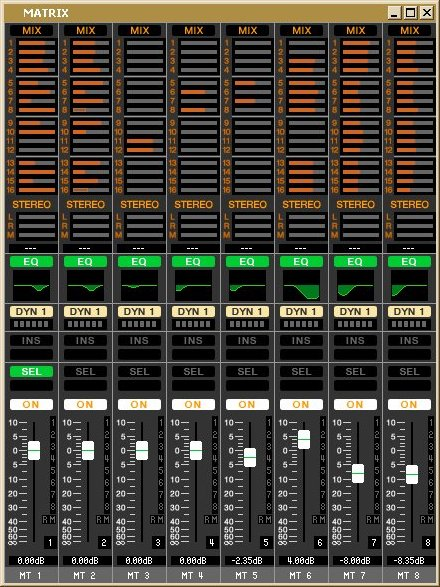 A screenshot of free software to control a Yamaha M7CL audio mixing console. The free software is Yamaha's Studio Manager. The screenshot shows the matrix mixer element of the mixing console.